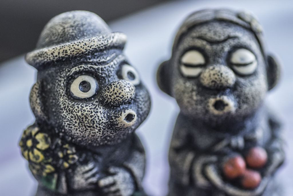 this is one of the popular stone Sculptures of Jeju Island which was located at the Southern Area of South Korea.